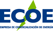 Logo Empresa de Comercialización de Energía Guatemala INDE